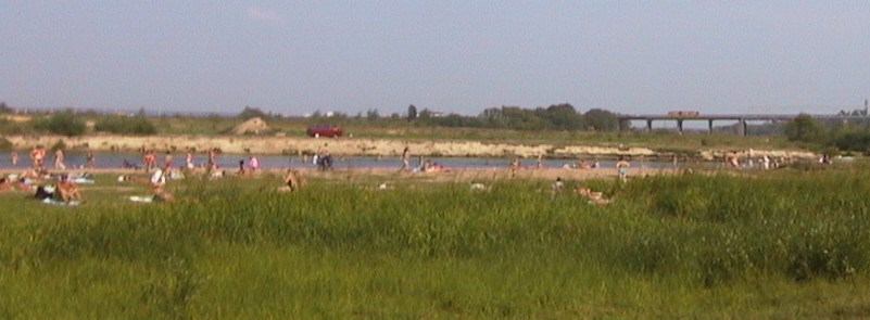 Bathers in the Berezina river near Borisov. User:Ecloud took this picture in August 2002 with Canon A50.